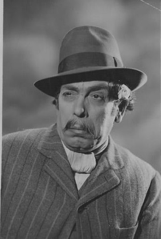 Jose Ruzzo- actor